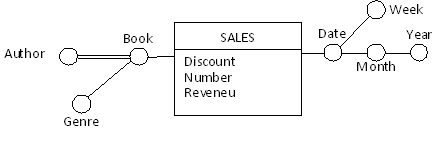 A fact schema for the sales fact showing the multiple arc contruct in the Dimensional Fact Model